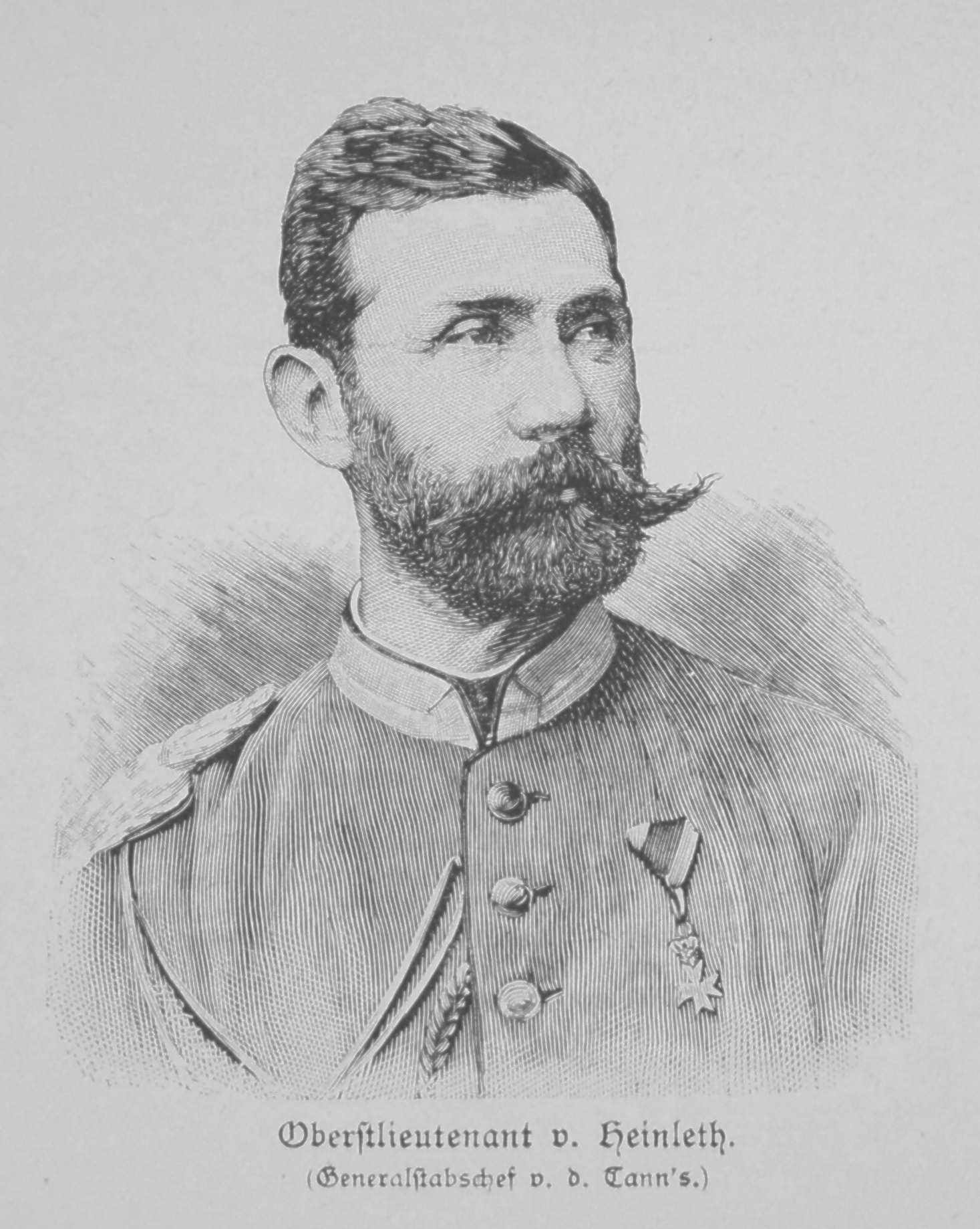 lieutenant colonel von Heinleth